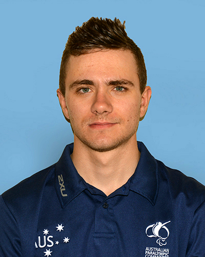 Media photo of 2016 Australian Paralympic Team Member Nick Yallouris